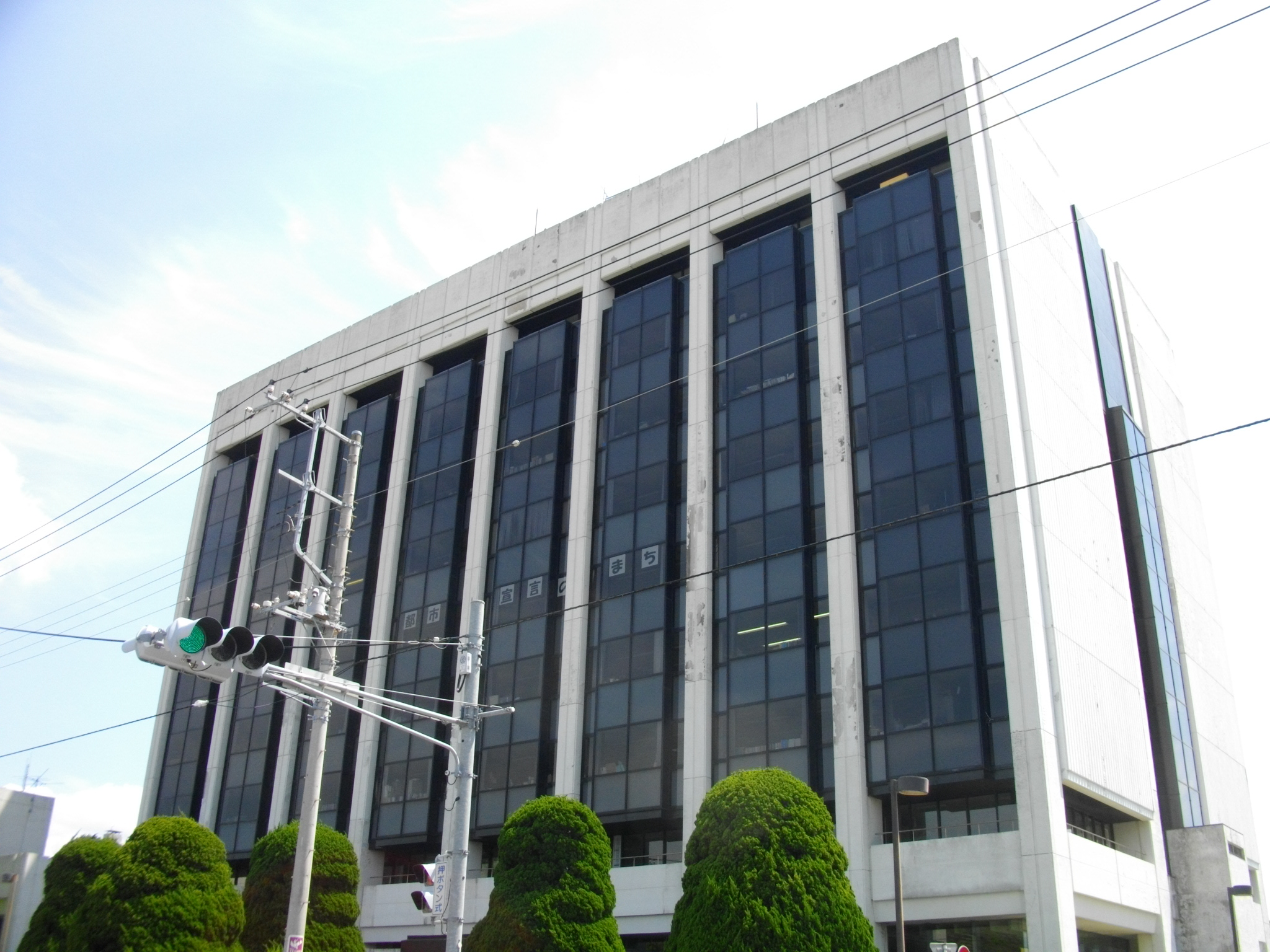 Kimitsu City Hall